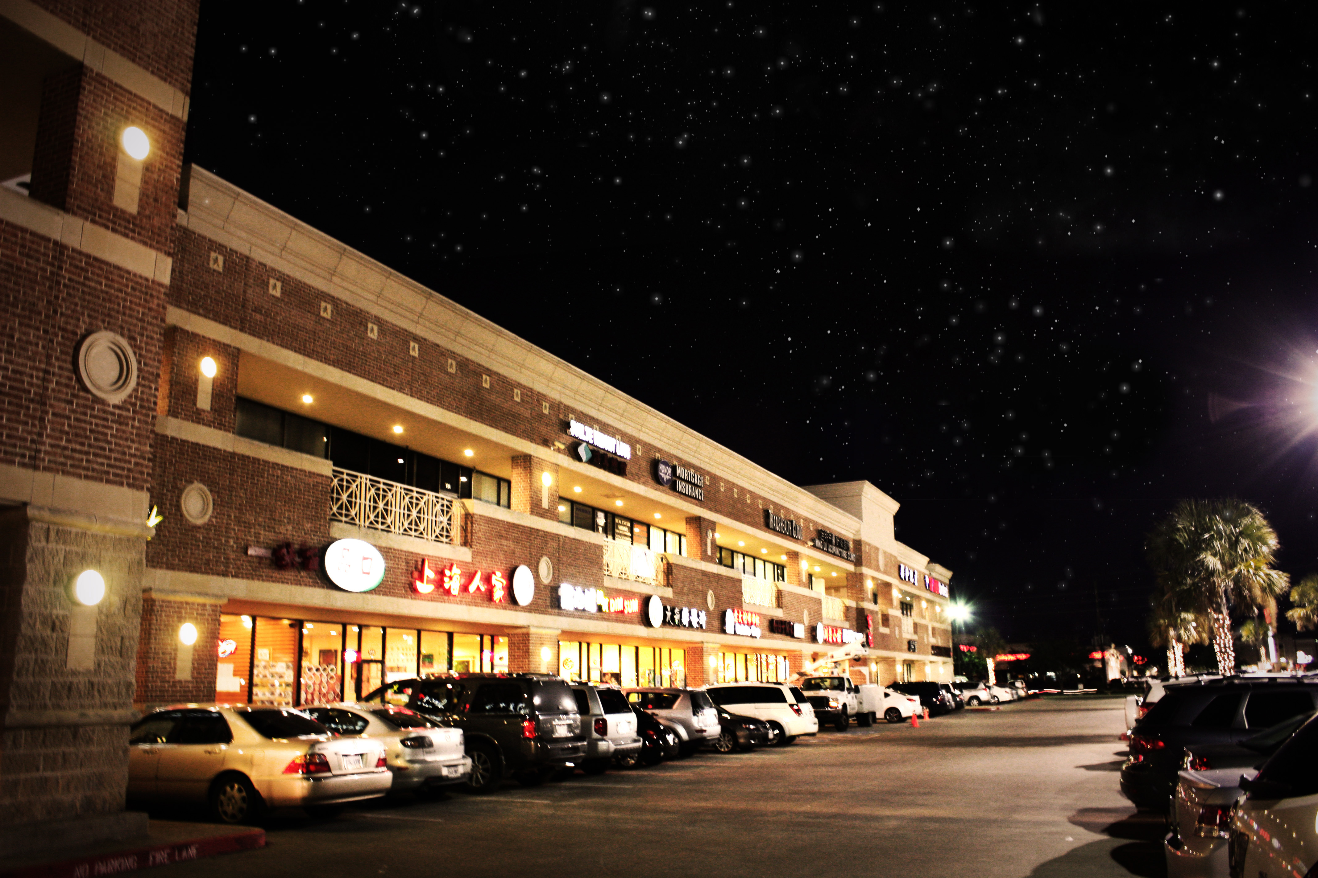 South side of Chinatown in Houston